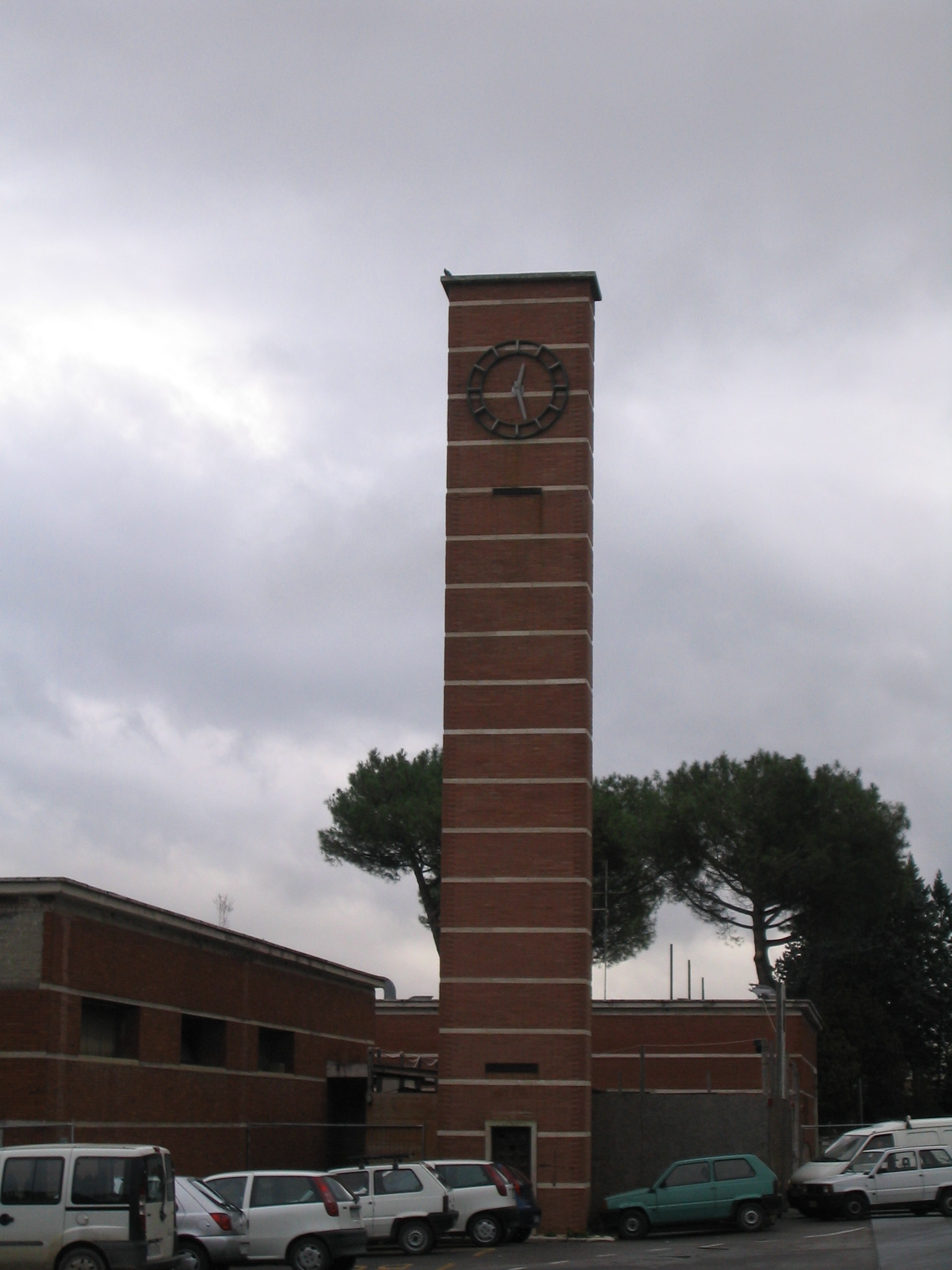 Clock tower at the Siena Railway Station